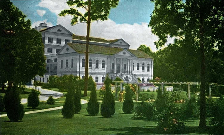 Biloxi Veterans Administration Medical Center at 400 Veterans Avenue, Biloxi, Harrison County, Mississippi, USA. Constructed 1932-33 in Late Southern Colonial Revival architectural style. Added to National Register of Historic Places on February 14, 2002.